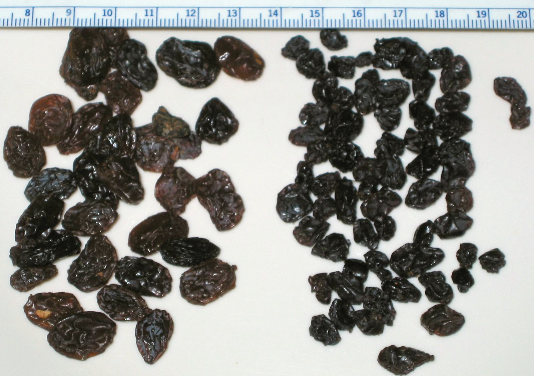 Photograph of California Seedless Grape Raisins on the left and California Zante Currants on the right along with a metric ruler for scale. The intent is to illustrate Zante Currants and to show their similarity to grape raisins.